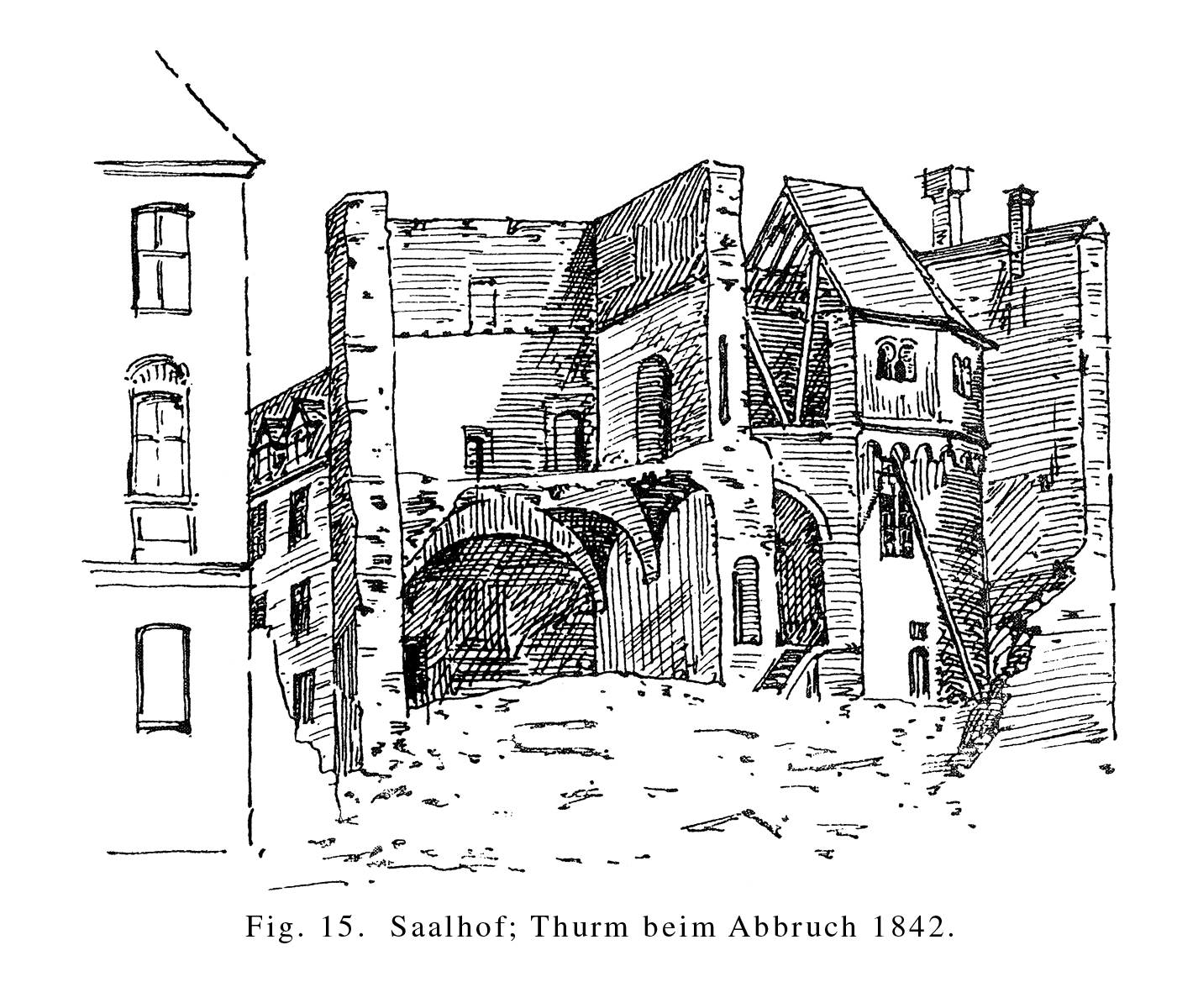 Frankfurt on the Main: Saalhof, display of the demolition work on the corner tower from the Staufer era in favour of the Burnitzbau, to the right the chapel preserved until today